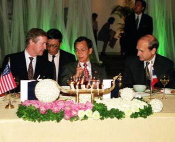 Prime Minister Chuan Likphai (center) hosts a dinner welcoming Secretary of Defense William S. Cohen (left) to the Kingdom of Thailand on Sept. 18, 2000. U.S. Ambassador to Thailand Richard Hecklinger (right) joined Likphai and Cohen as they discussed issues of interest to both nations. DoD photograph by Helene C. Stikkel. (Released).